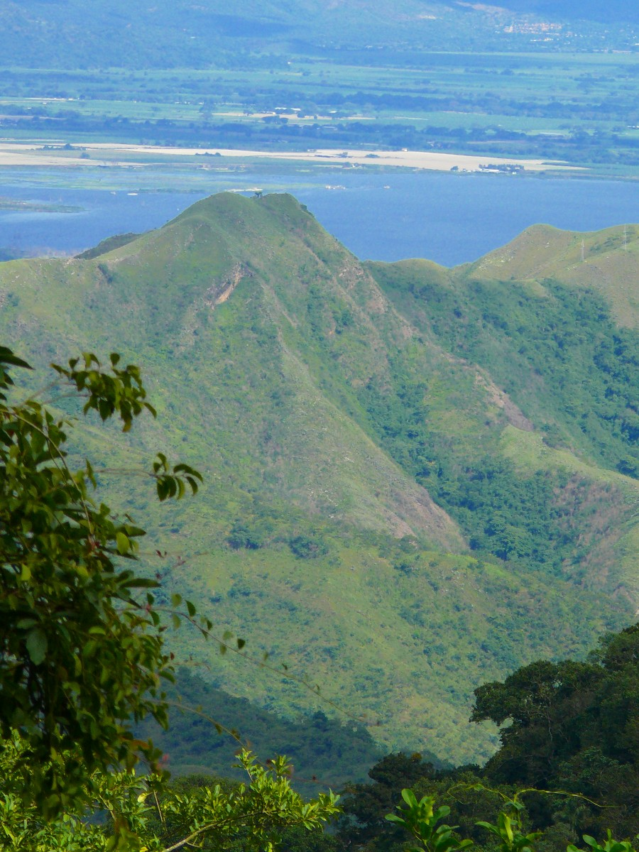 The Venezuelan Coastal Range of the northern Andes, and Lake Valencia, from biological Station in Rancho Grande, Henri Pittier National Park